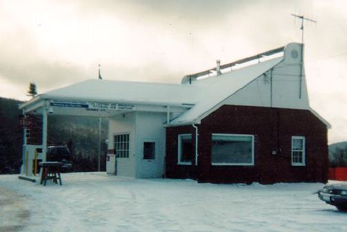 Pittsburg, NH port of entry after snowstorm